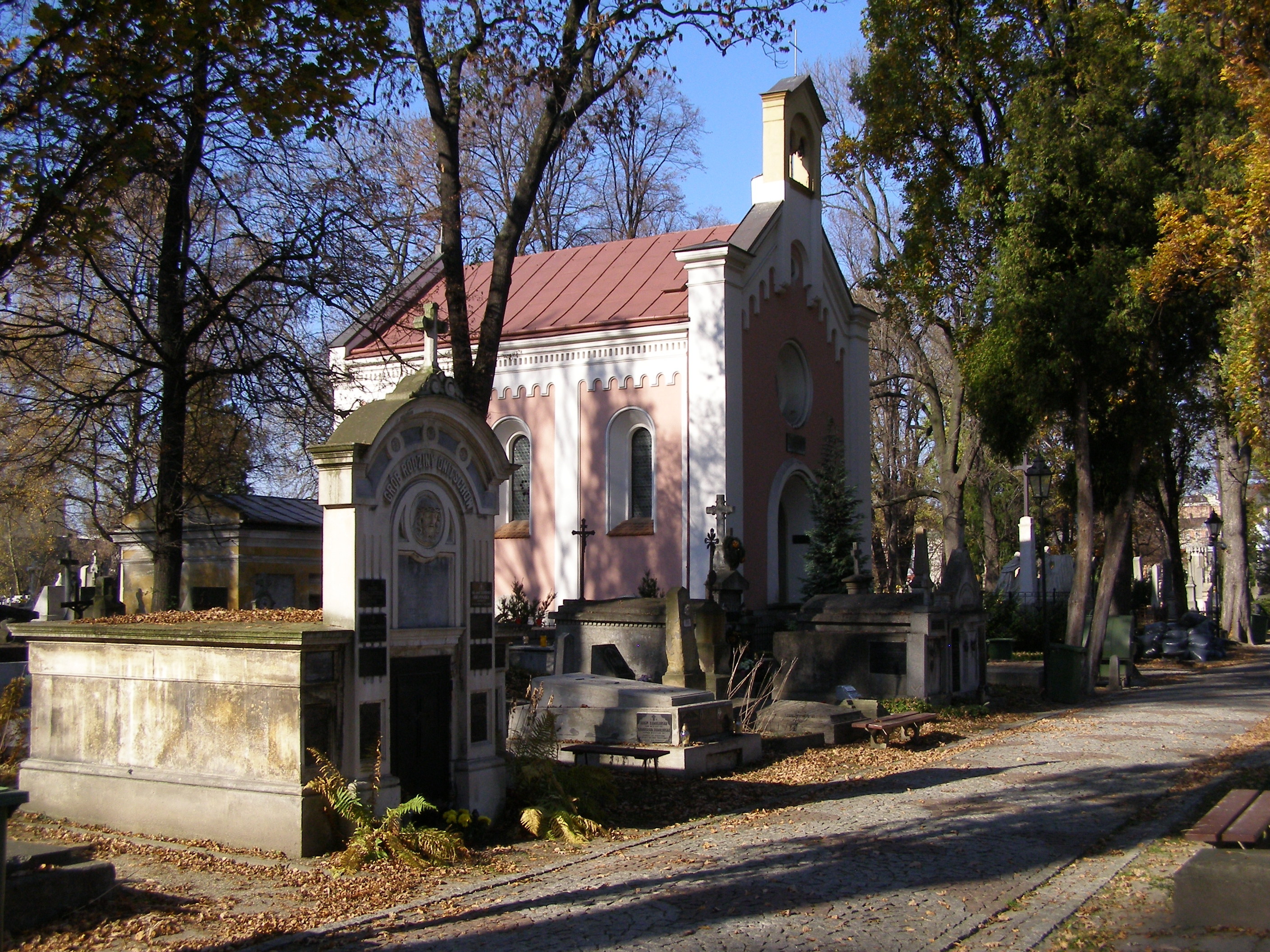 Tarnów - Old Cemetery - Sanguszko family chapel